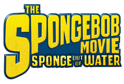 The SpongeBob Movie Sponge Out of Water logo